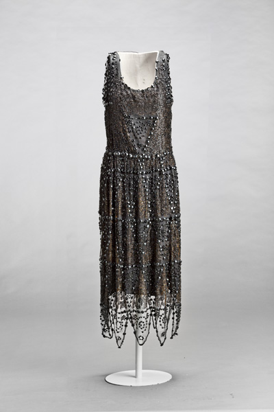 Ankle-length dress in black silk tulle decorated with rhinestones and beads.